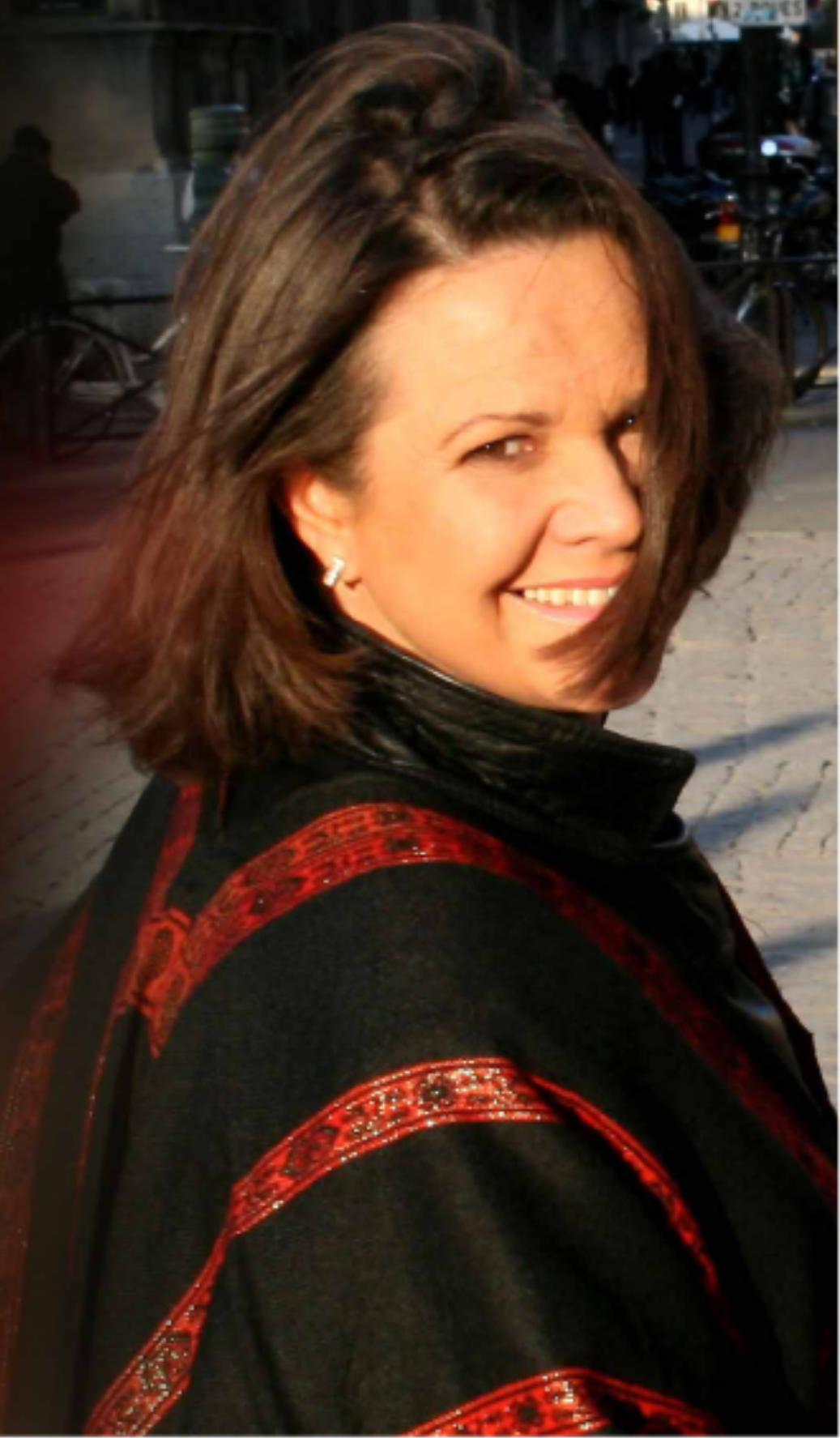 French recording artist Anne Marie David